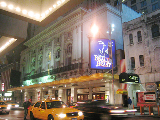 Lunt-Fontanne Theatre facade — showing "Beauty and the Beast" marquee. Located at 205 West 46th Street, Manhattan, New York City, the building was designed in the Beaux-Arts style by the NYC firm Carrère and Hastings in early 20th century.